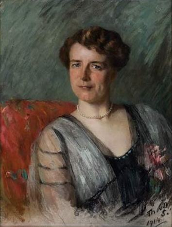 Portrait of Esther Welmoet Wijnaendts Francken-Dyserinck (1876-1956) by Thérèse Schwartze (1851-1918)